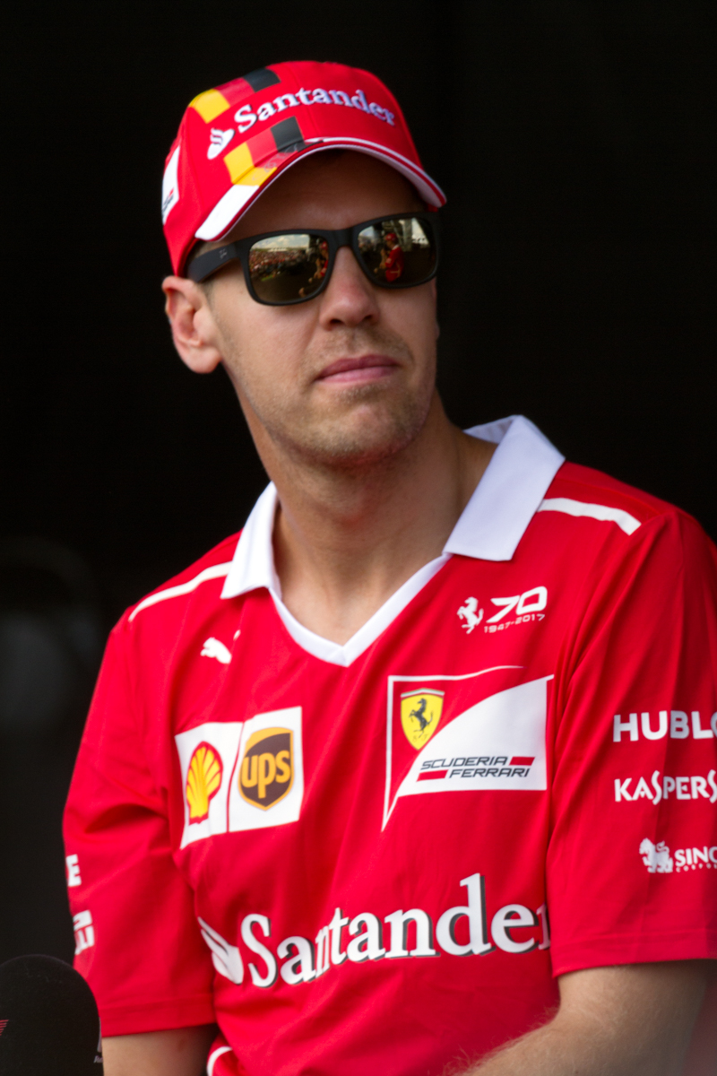 Formula One 2017 Rd.15 Malaysian GP: Sebastian Vettel (Ferrari) at the fan meeting